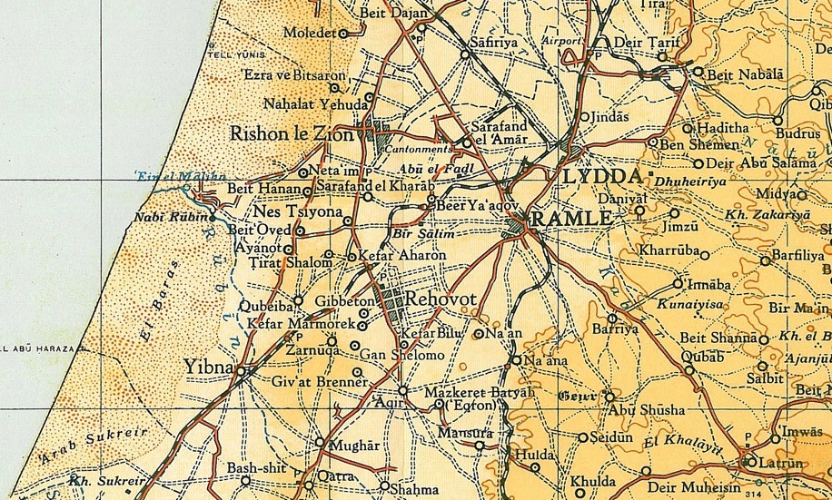 Ramla1945 1:250,000